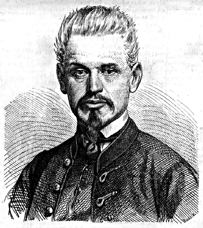 József Volny (1819–1878) metallurgical engineer